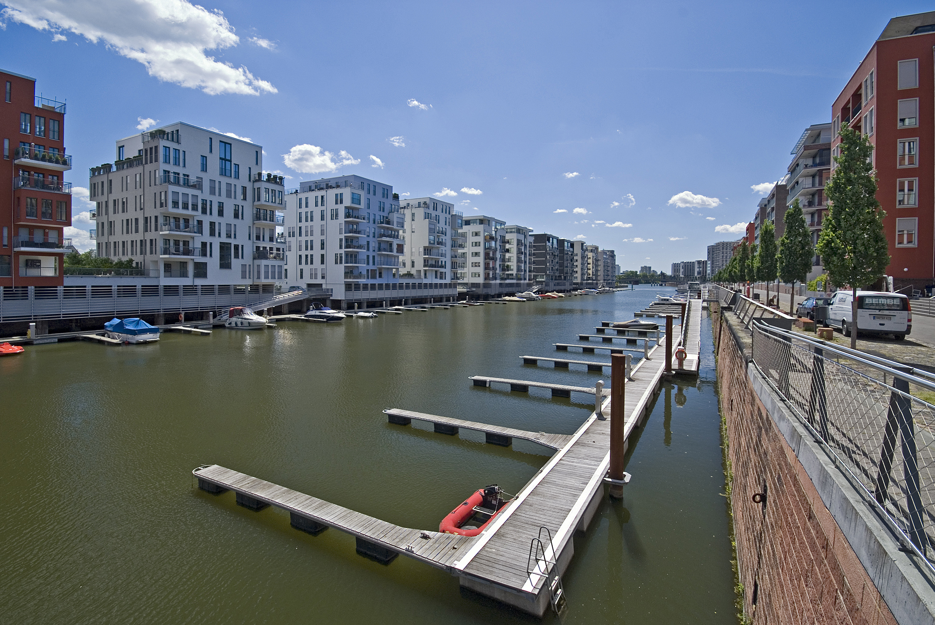 Frankfurt Westhafen, view from east. The Westhafen is an urban district in Frankfurt am Main, formerly a river port and now a modern residential quarter